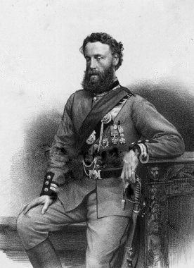 Robert Loyd-Lindsay, 1st Baron Wantage (1832-1901)